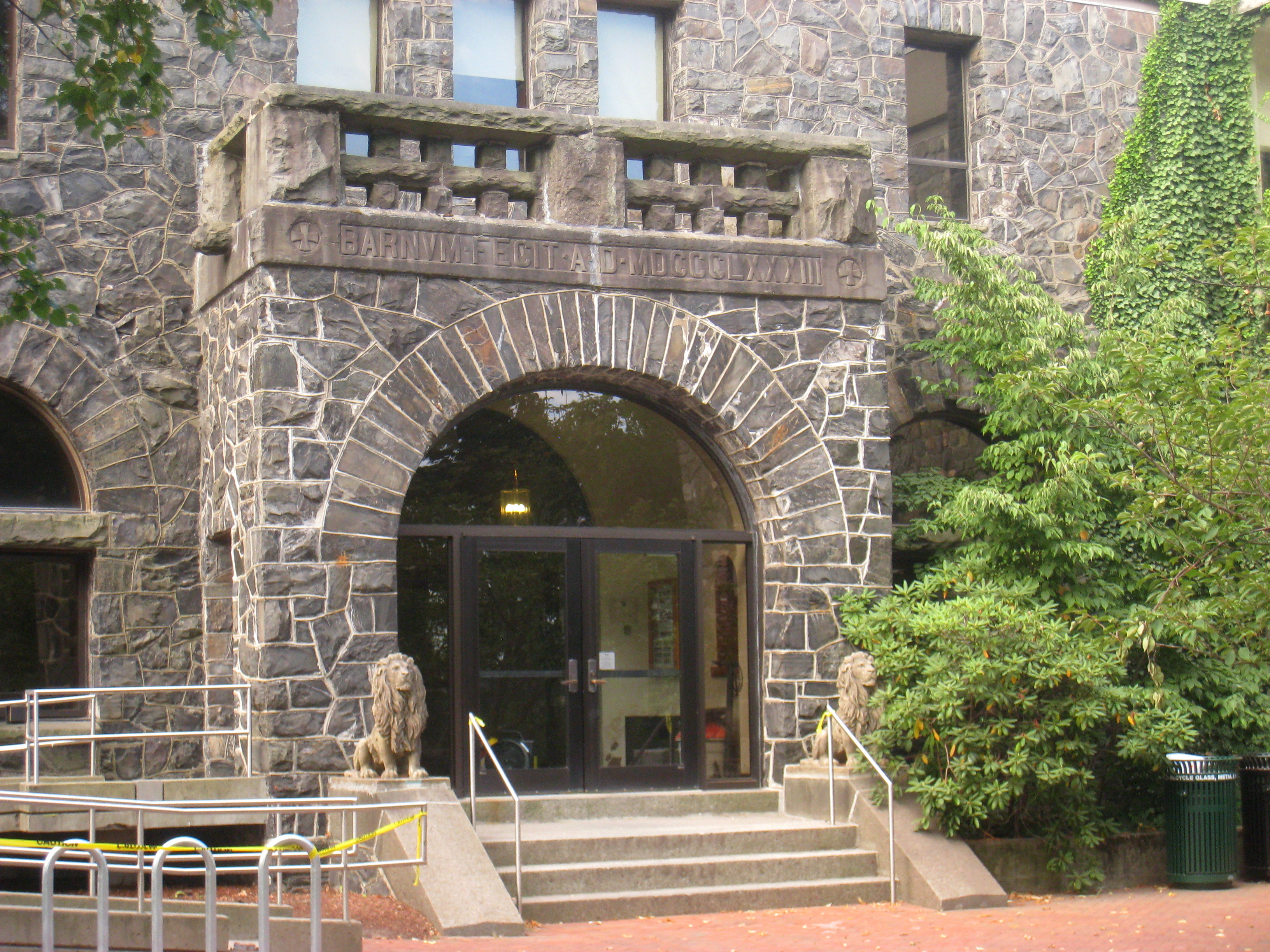 Barnum Fecit, at Tufts University, Medford, Massachusetts, USA.